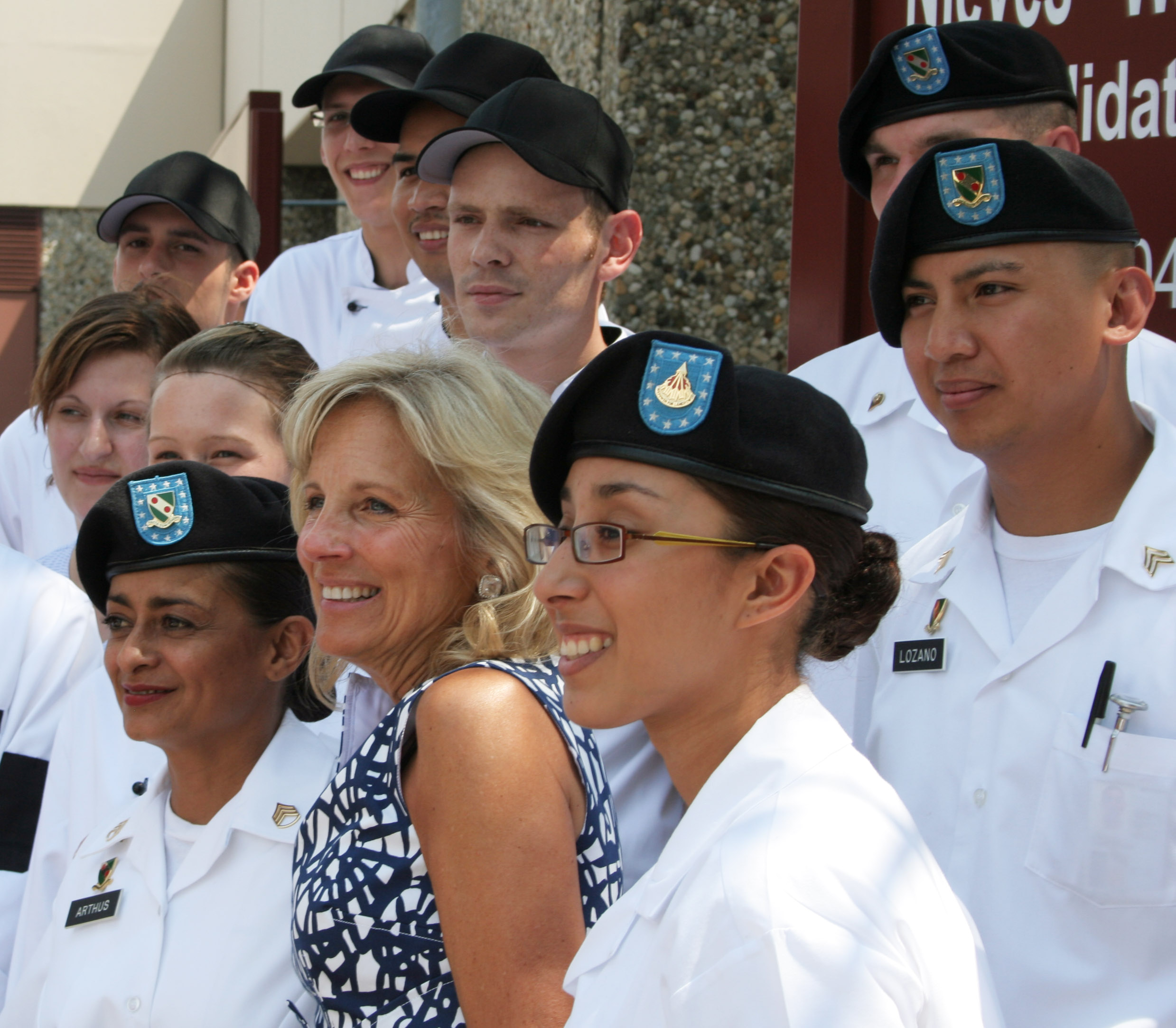 Soldiers and local national workers from the Nieves Webb dining facility pose for a picture with Dr. Jill Biden. Biden visited Bamberg on July 3 and Schweinfurt the following day. Photo Credit: Mark Heeter (USAG Schweinfurt). See more at Second lady visits Bamberg, Schweinfurt